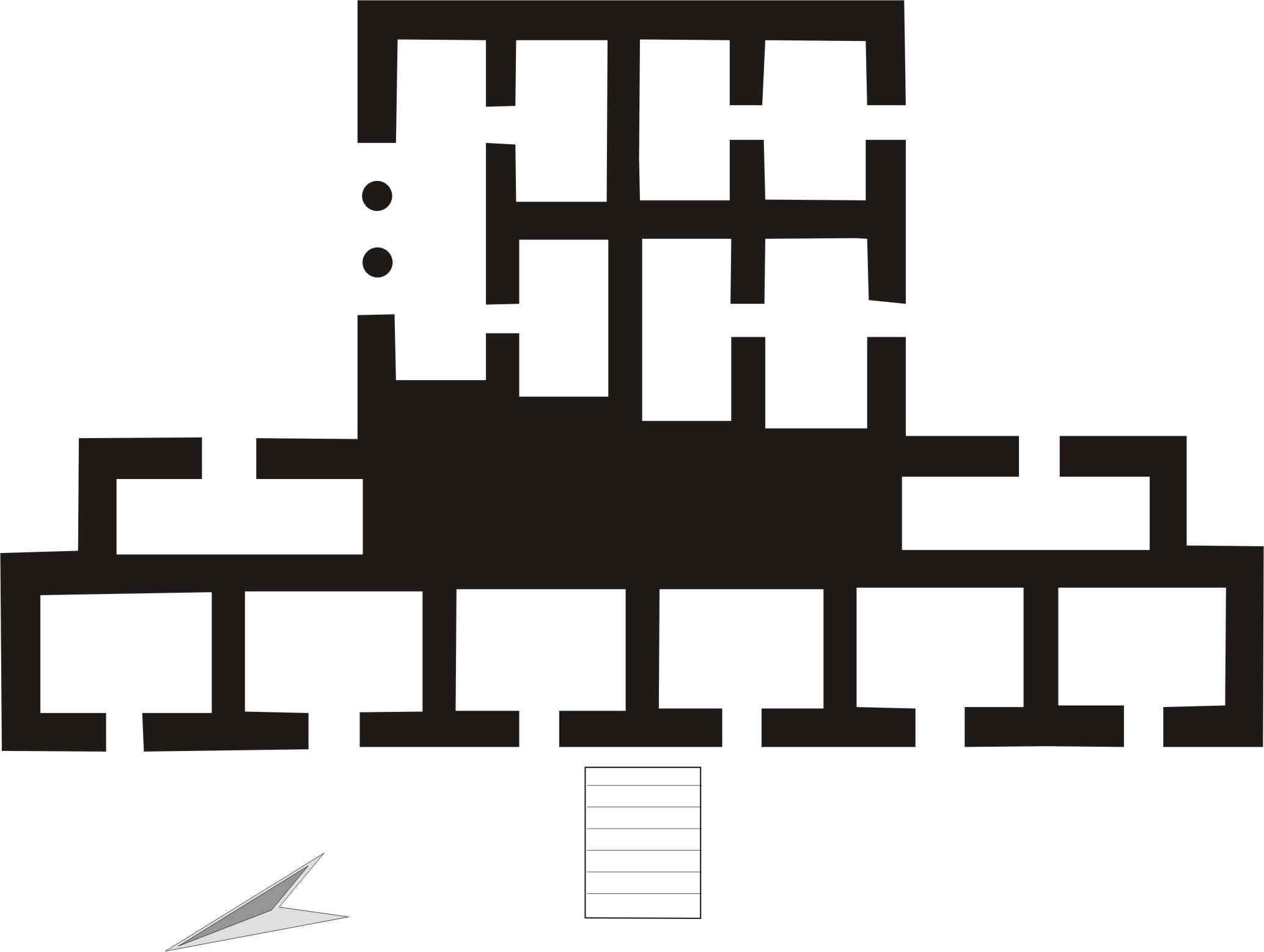 EXample of very complex Puuc building (Yaxché Xlabpak).